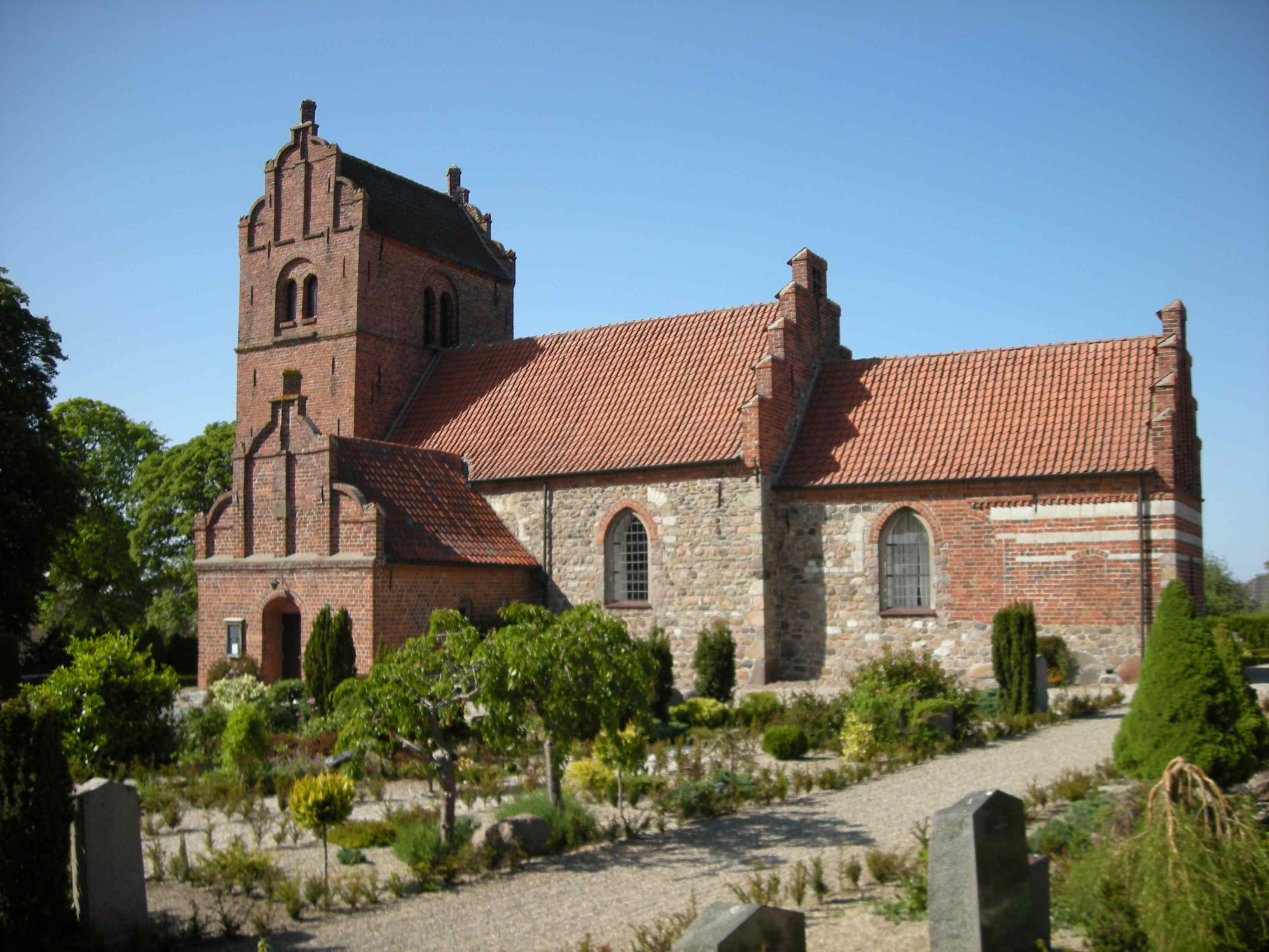 Ølsted Church, Municipality of Frederiksværk, Region Hovedstaden, Denmark.